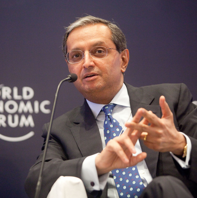 Vikram Pandit, Chief Executive Officer, Citi, USA; Co-Chair of the World Economic Forum on Latin America, captured during the World Economic Forum on Latin America in Rio de Janeiro, Brazil, April 29, 2011.